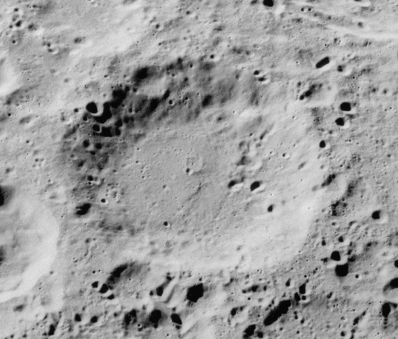 Oblique view of Polzunov, on the far side of the moon. North is in upper right.